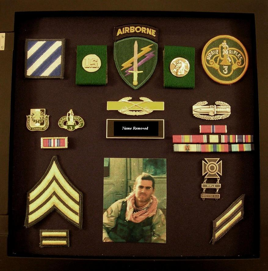 Shadow box. Top Row: 3d Infantry Division (3d ID) Former Wartime Service Shoulder Sleeve Insignia / Leadership Tab with U.S. Identifier / United States Army Civil Affairs Psychological Operations Command (USACAPOC) Shoulder Sleeve Insignia / Leadership Tab with Psychological Operations Branch Identifier / 3d Armored Cavalry Regiment (3d ACR) Former Wartime Service Shoulder Sleeve Insignia / Left 2nd Row: Psychological Operations Regimental Crest / 3d Armored Cavalry Regimental Crest / Left 3rd Row: Valorous Unit Award / Left 4th Row: Sergeant Stripes (E-5) / Left 5th Row: Overseas Service Bars (2) / Center: Combat Cavalry Badge (Unofficial) / Right 2nd Row: Combat Action Badge / Right 3rd Row: Ribbon Rack (Bronze Star; National Defense; Iraq Campaign; Global War on Terrorism (Service); Army Reserve (Mobilized); Army Service; Overseas Service / Right 4th Row: Sharpshooter (Rifle; Machine Gun) / Right 5th Row: Service Stripes (2)